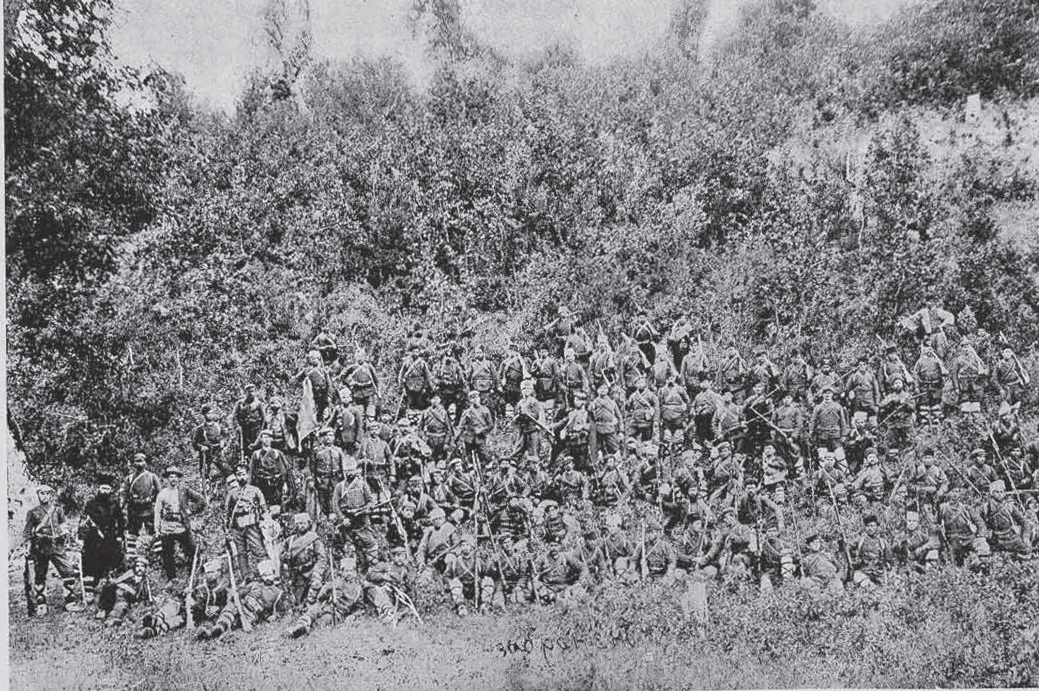 Cheti of Odrin revolutionary region by IMARO